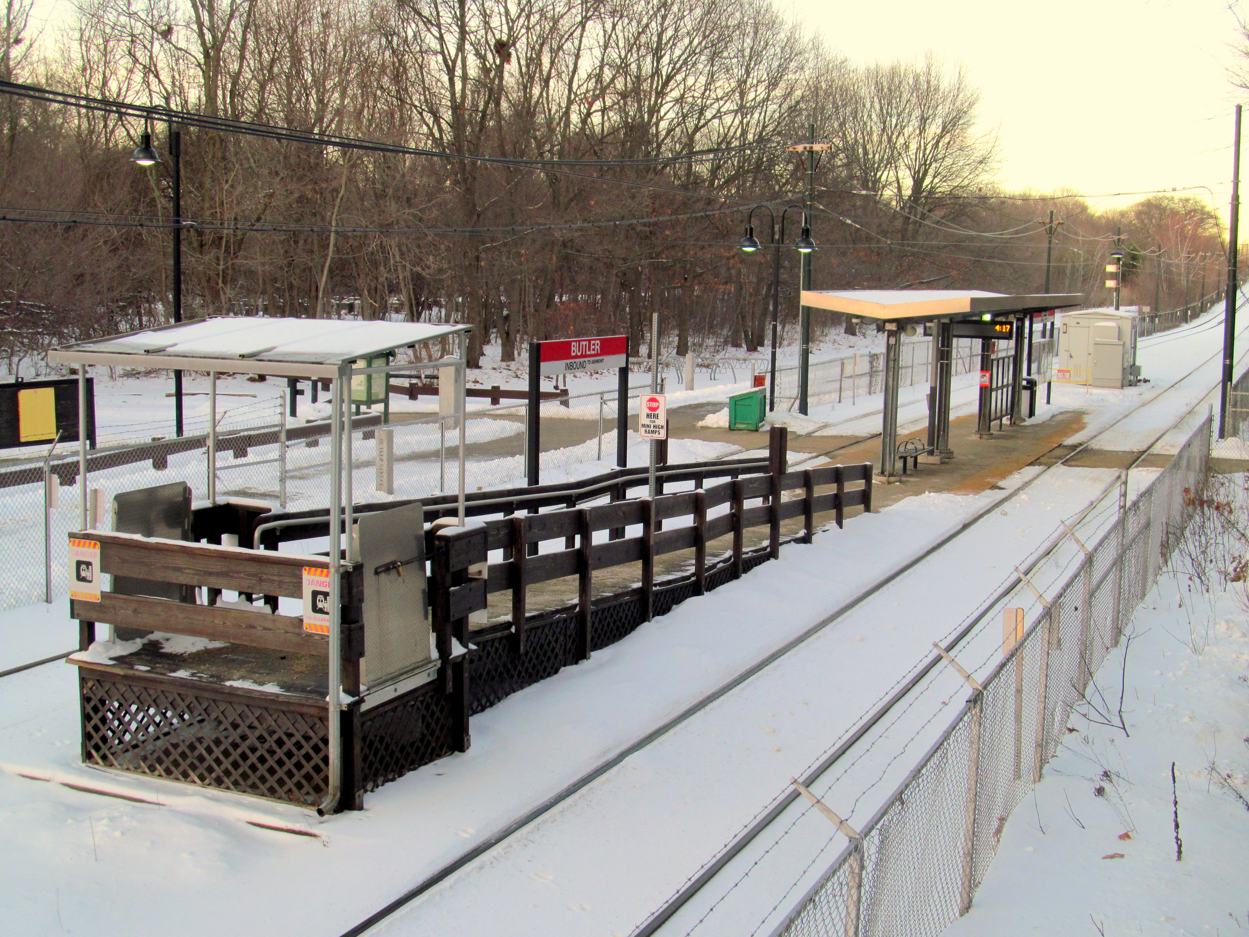 Butler station in January 2016